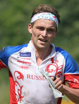 World Orienteering Championships 2007 in Kiev, Ukraine. On photo Russian Andrey Khramov.